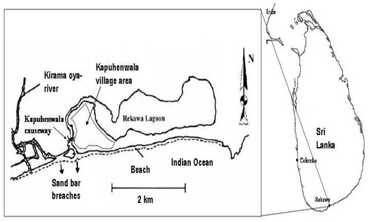 Map of Rekawa Lagoon, Sri Lanka with the locations of major freshwater inflow (Kirama-oya river) and Kapuhewala causeway